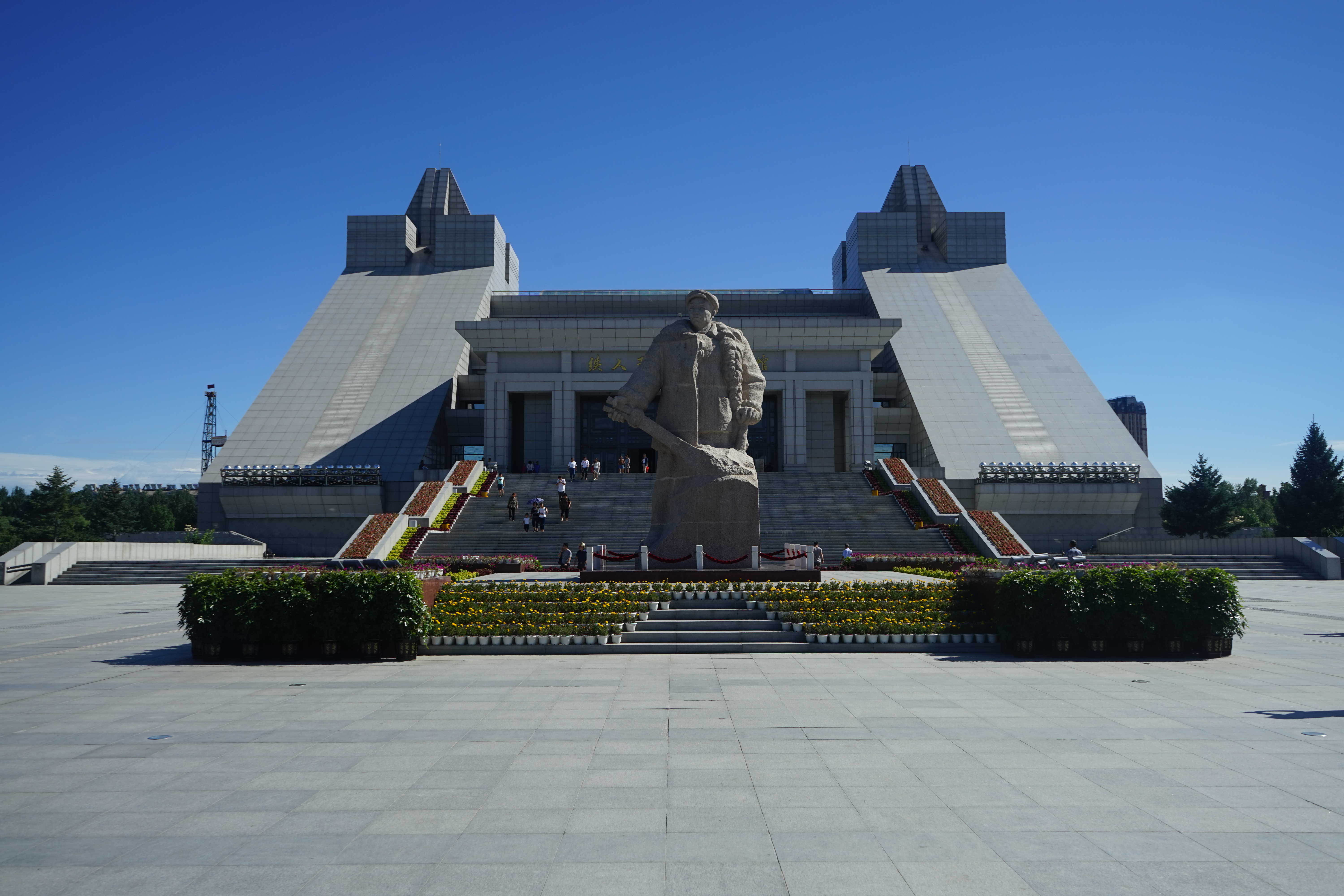 Iron Man Wang Jinxi Memorial